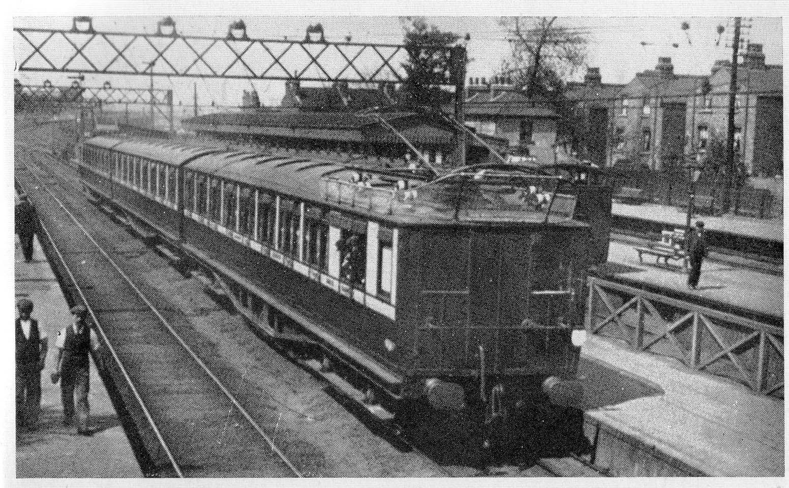 London, Brighton and South Coast Railway SL Class electric train at Wandsworth Road station on the South London Line in about 1909